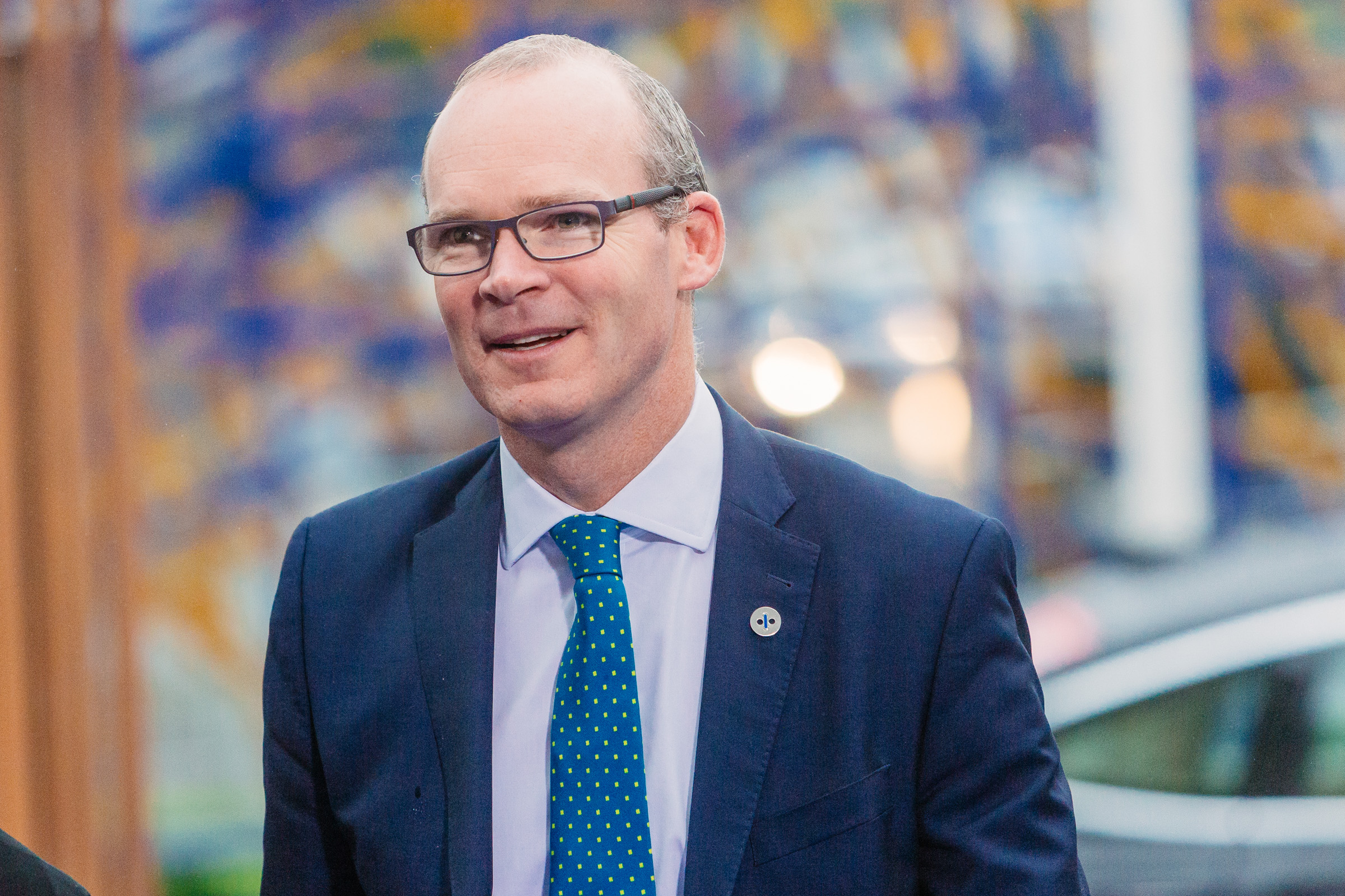 Simon Carbery Coveney, Minister, Department of Foreign Affairs and Trade, Ireland Photo: Arno Mikkor (EU2017EE)